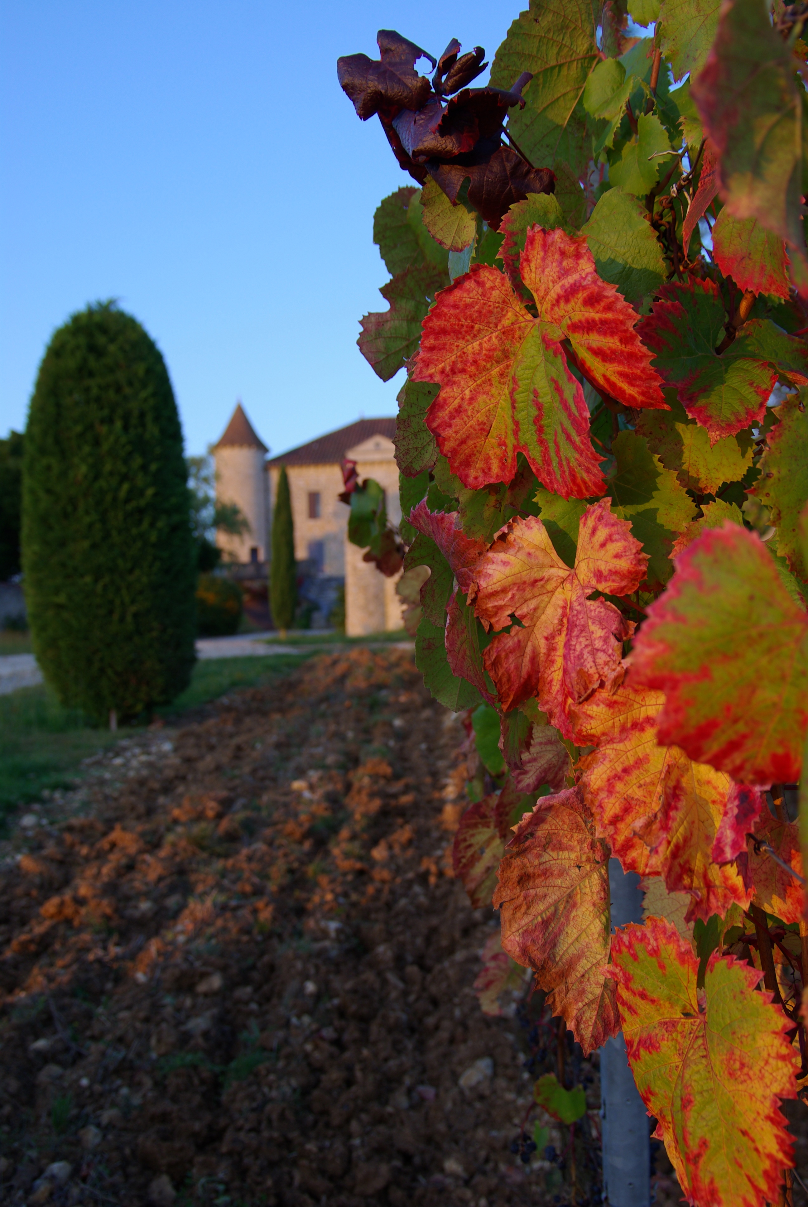 Chateau Chambert vineyard, Malbec vineyard, Cahors - France. In autumn.